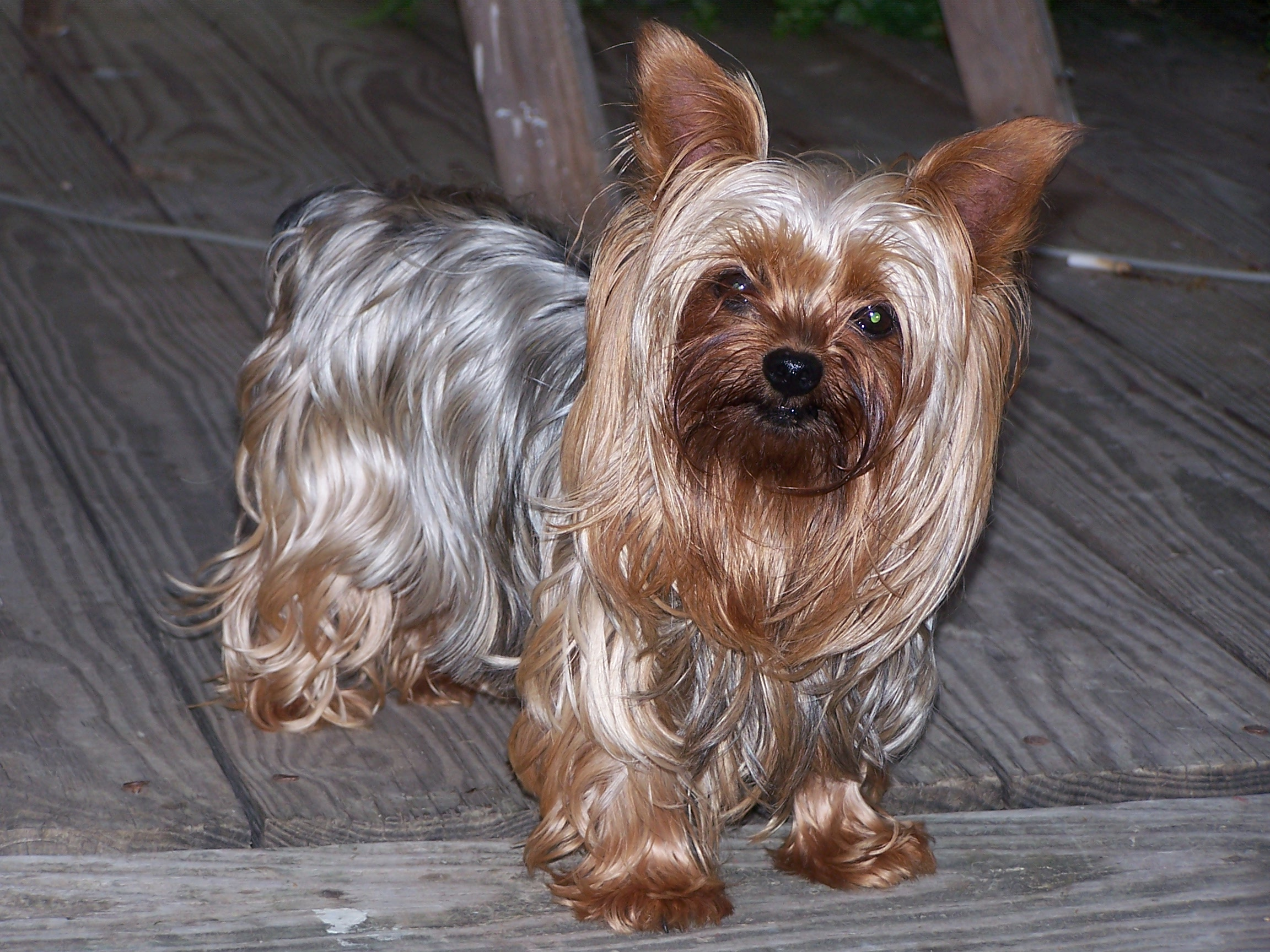 Little Tootie